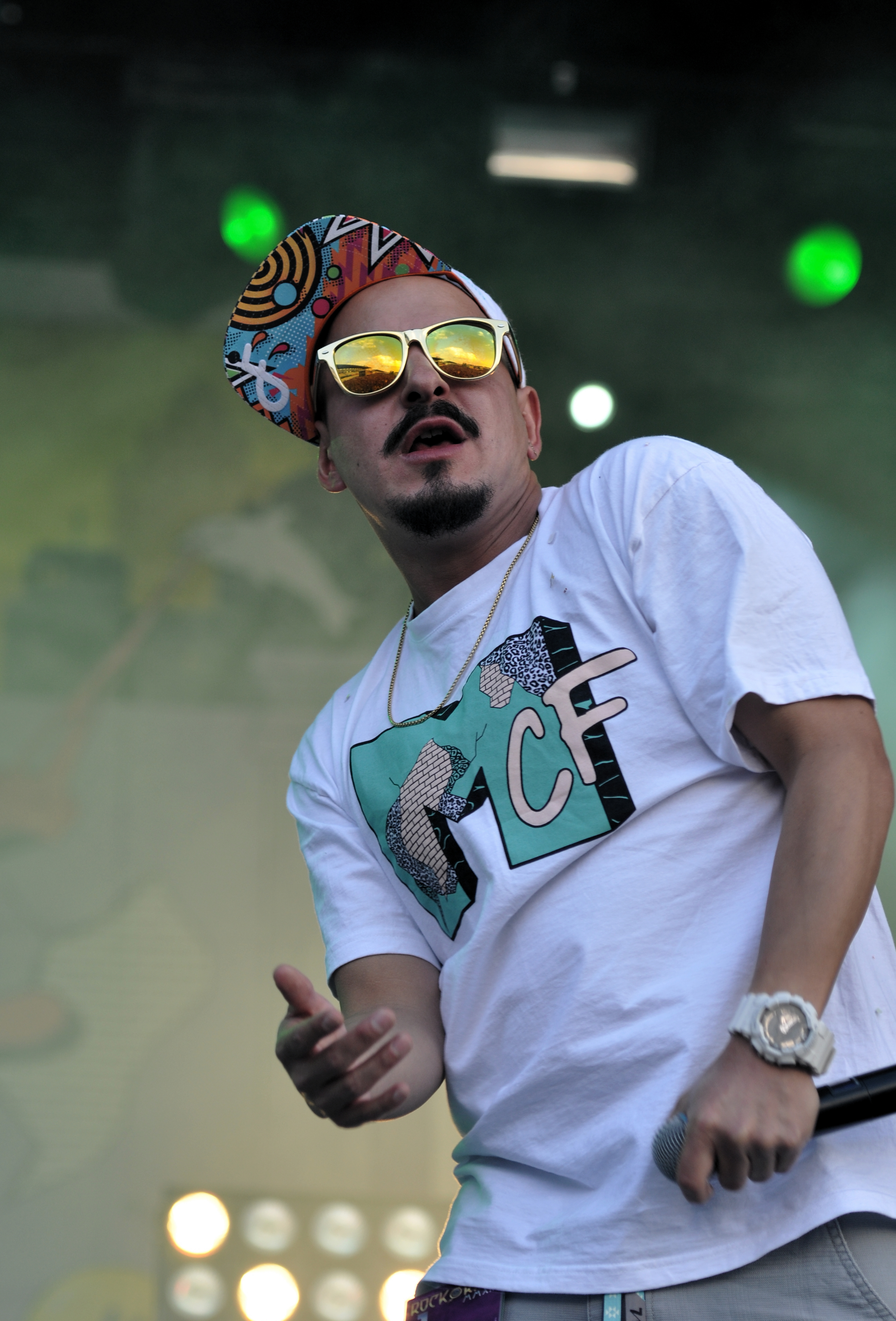 Vokalmatador at Rock am Ring 2013